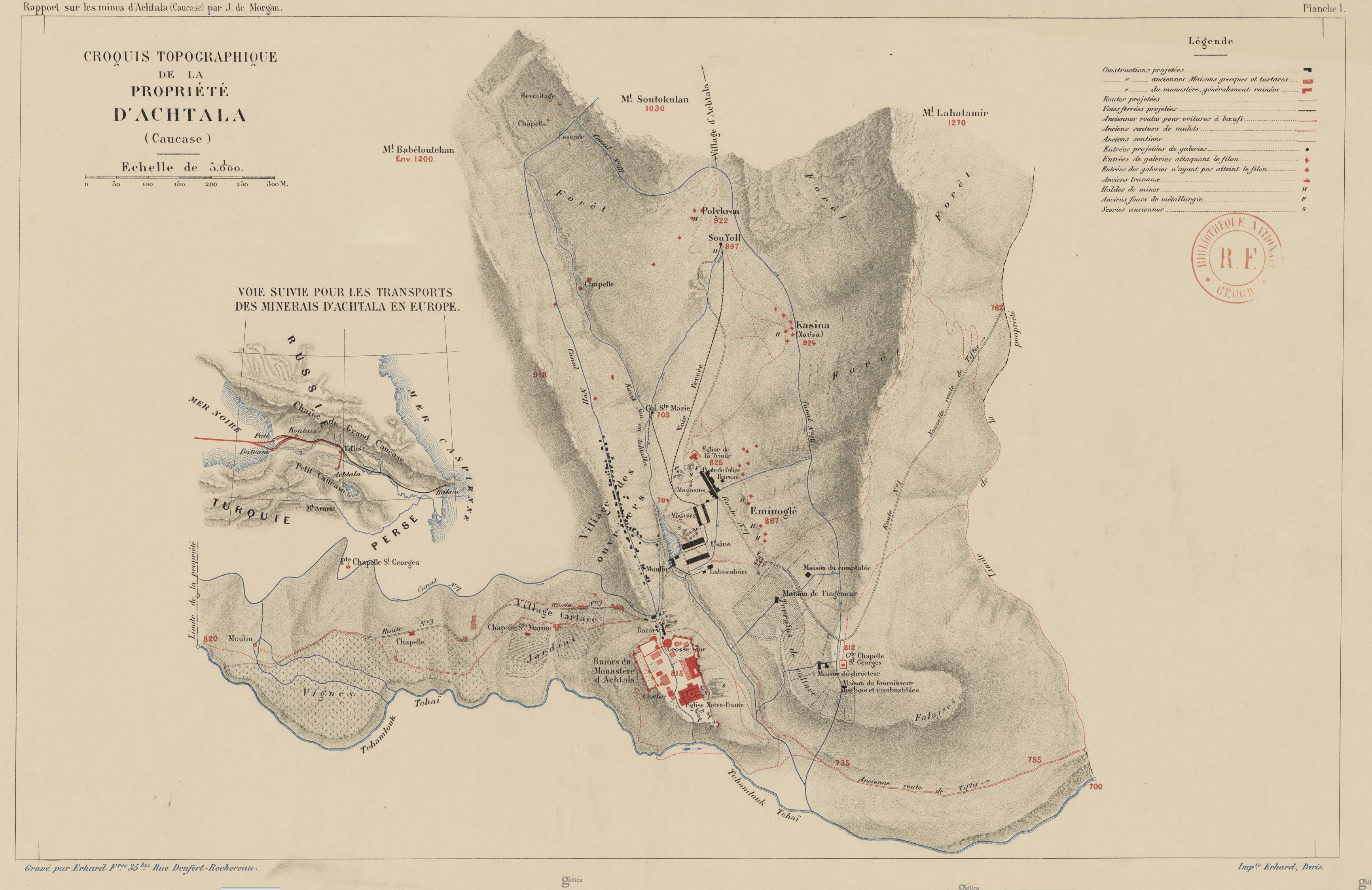 Akhtala topographic map, 1886.